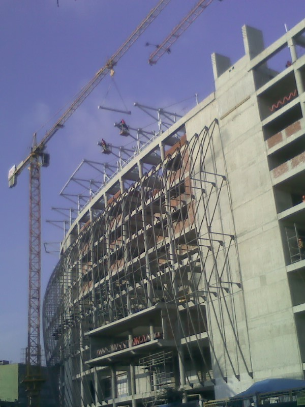 Renovation of the Peru's National Stadium.